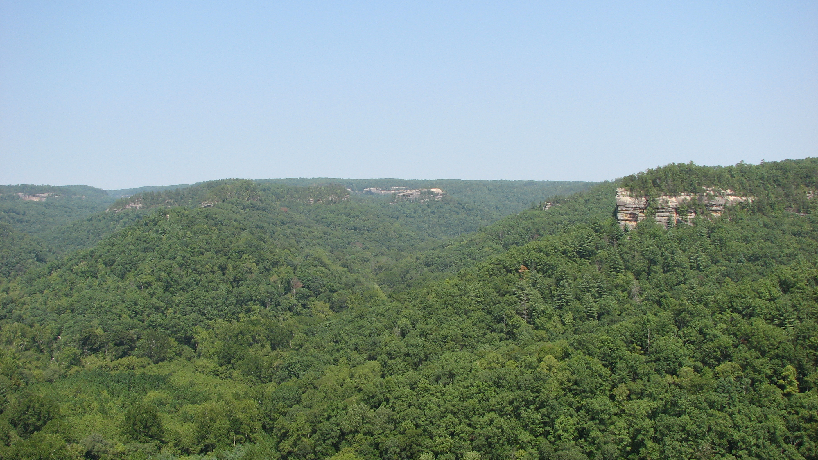 Chimney Top Rock, Red River Gorge, KY